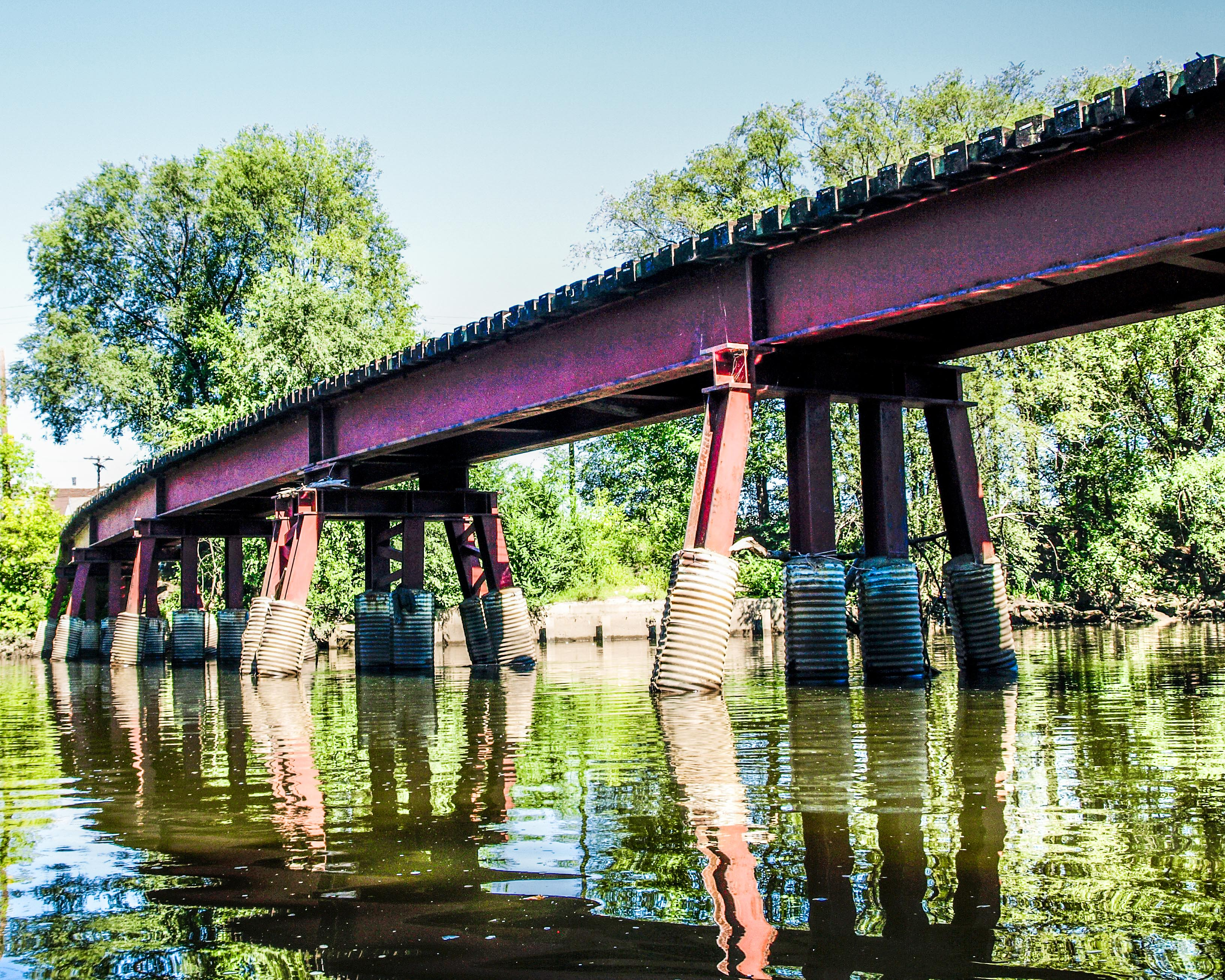 Bergen County Shortcut Railroad Bridge over the Passaic River, Passaic - Garfield, New Jersey